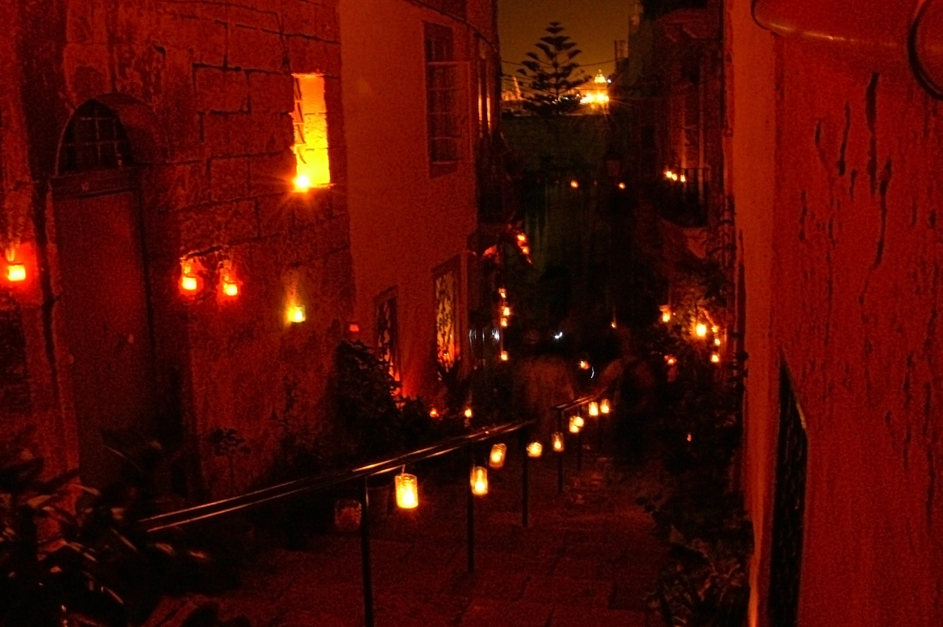 Candle lit Birgu (Citta Vittoriosa) during the yearly Birgufest